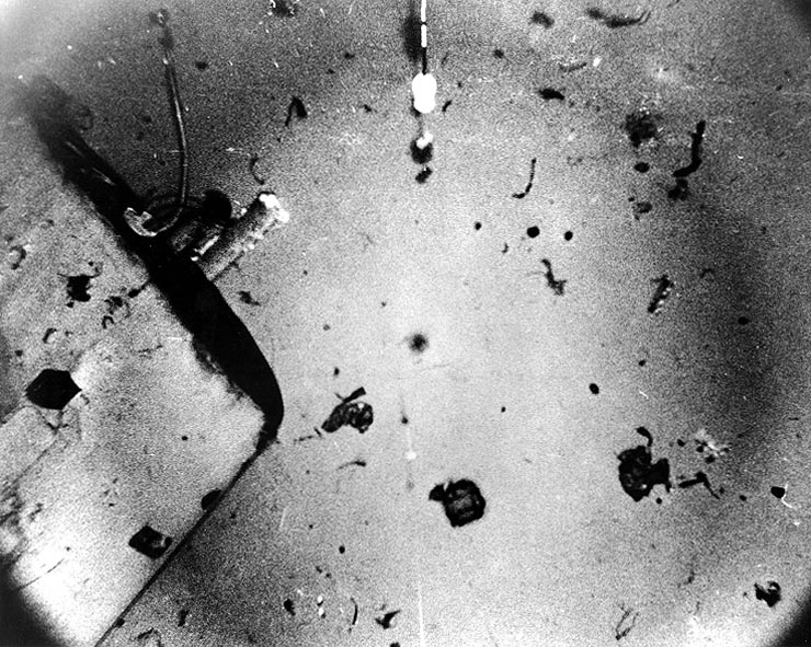 Wreck of USS Scorpion (SSN-589) View of the sunken submarine's sail, probably taken when Scorpion was located by USNS Mizar (T-AGOR-11) in October 1968, on the Atlantic Ocean floor 10,000 feet deep, some 400 miles southwest of the Azores. This image shows the starboard side of the sail, with its after end at top left, and the starboard access door in lower left. Debris is on the ocean bottom nearby. The device in top center is part of the equipment used in locating and photographing the wreckage. The original photograph bears the date 30 January 1969.